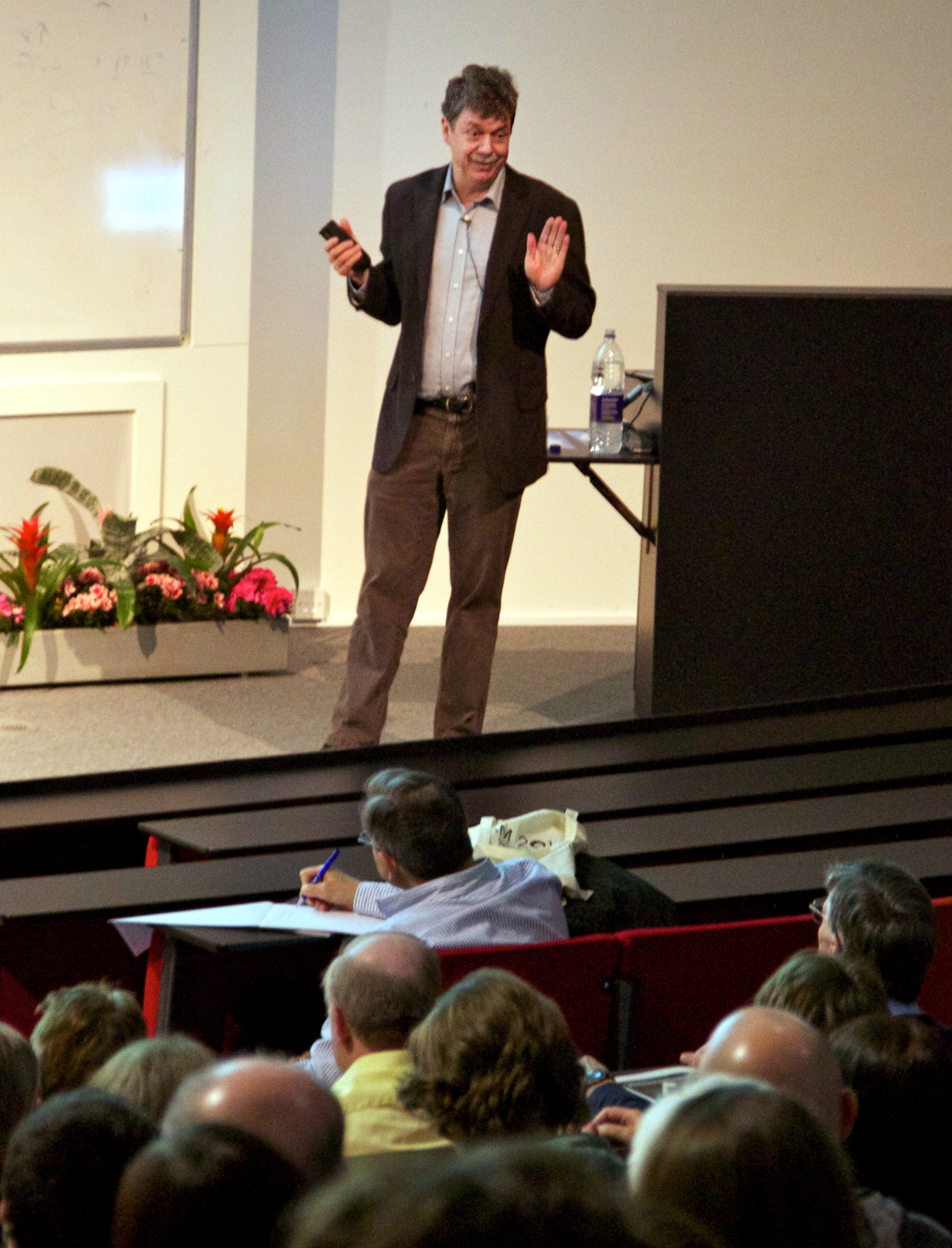 Simon White at the Royal Astronomical Society's National Astronomy Meeting 2012. Seated at the front of the audience is Carlos Frenk.